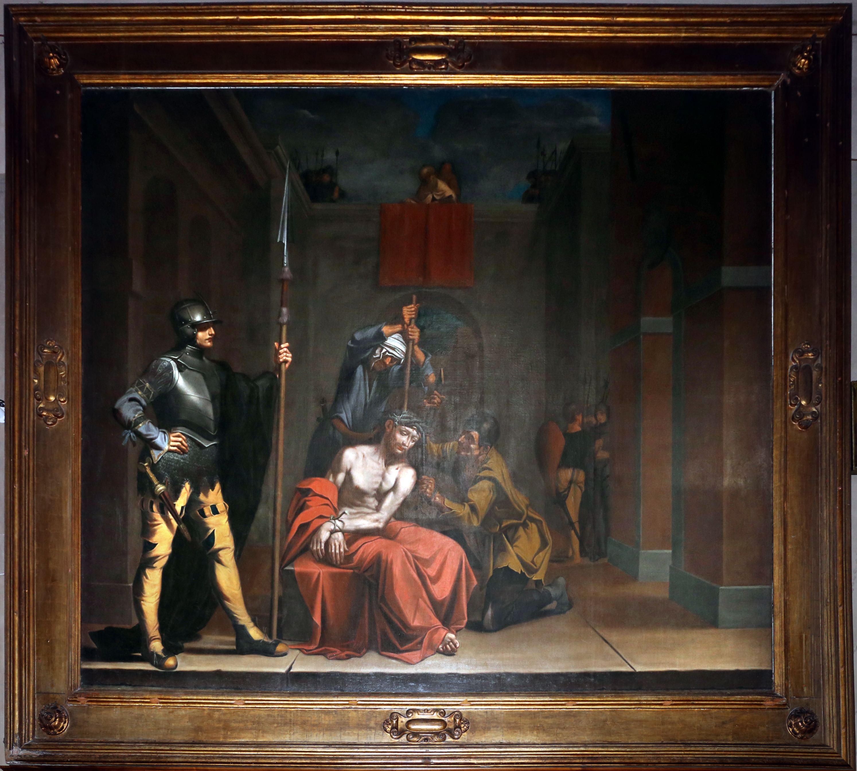 San Giorgio fuori le Mura (Ferrara)